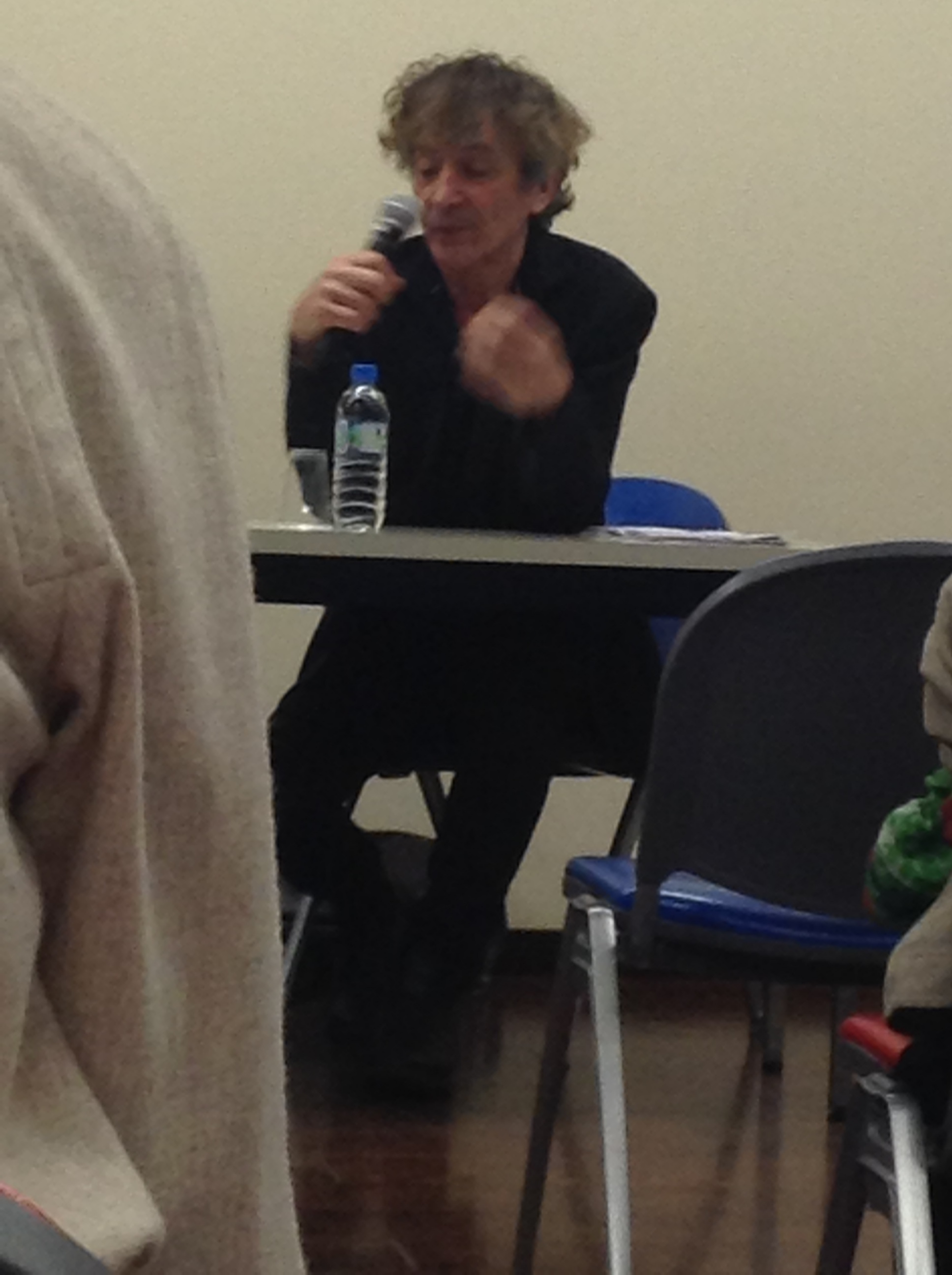 Hubert Haddad